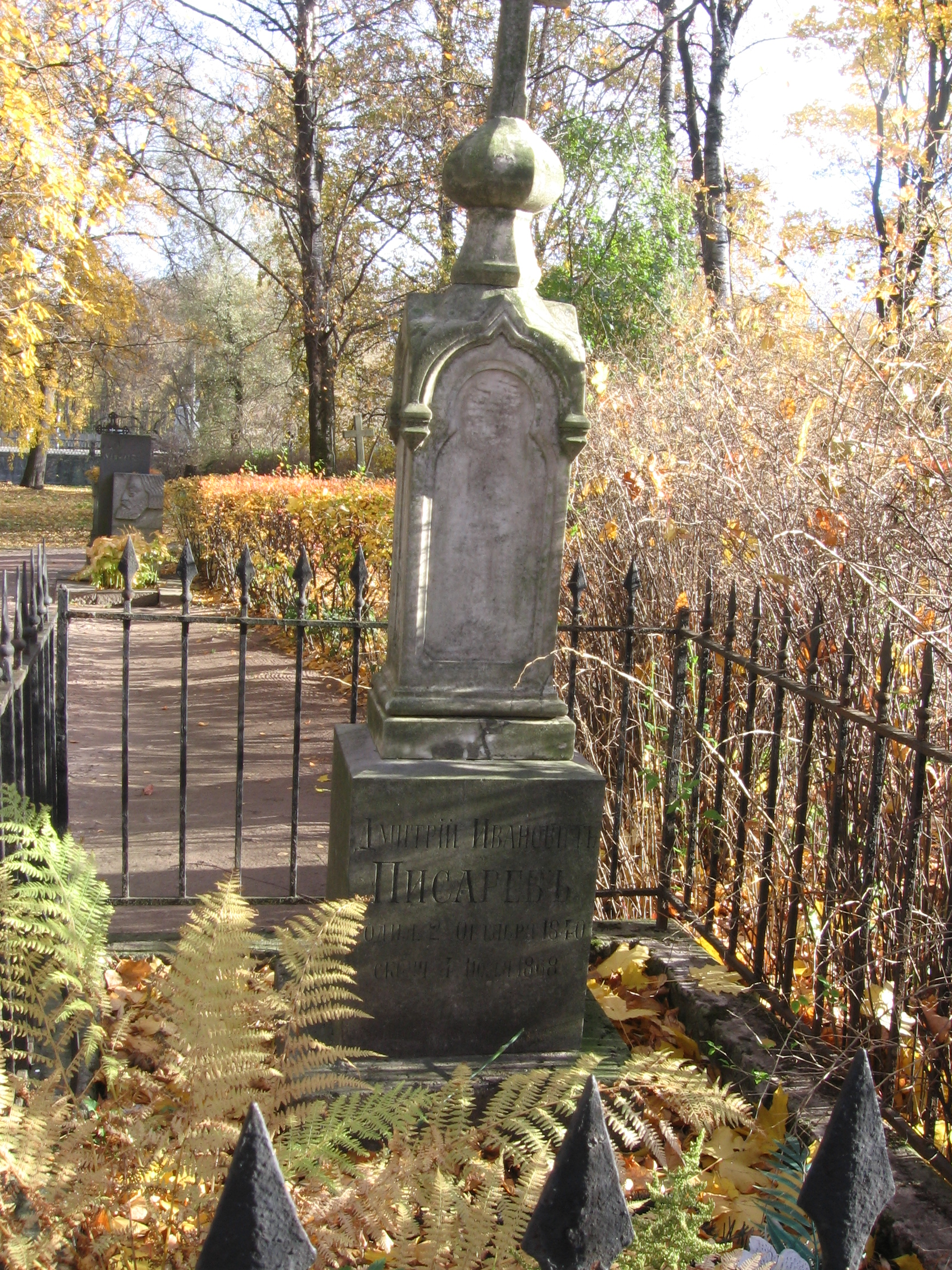 Grave of Dmitry Pisarev